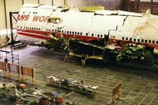 The wreckage of TWA Flight 800.